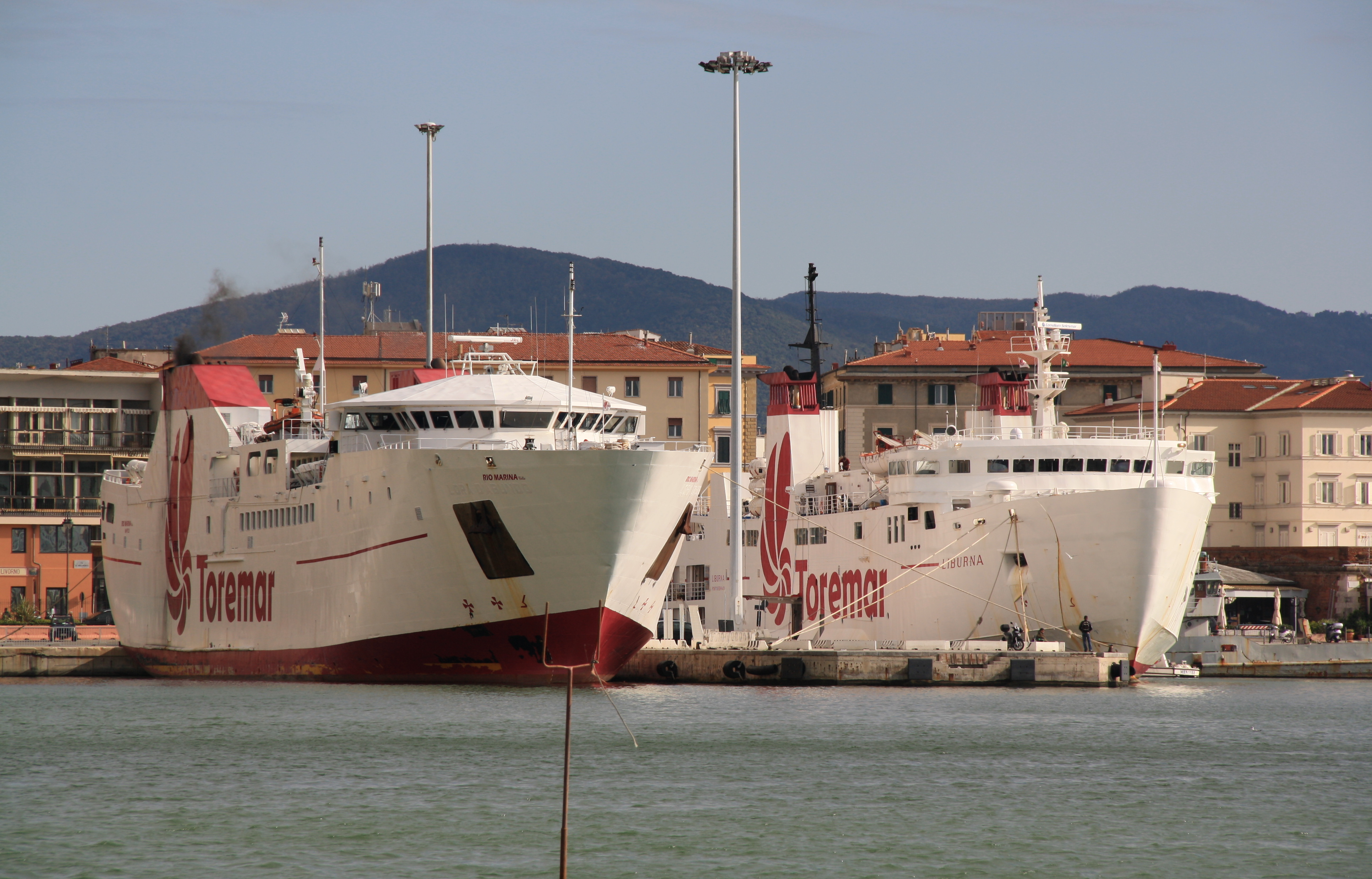 Italy, Port of Livorno. The Toremar ro-ro passanger ship Rio Marina Bella and the ferry Liburna berthed at “Andana degli Anelli” of “Porto Mediceo”.